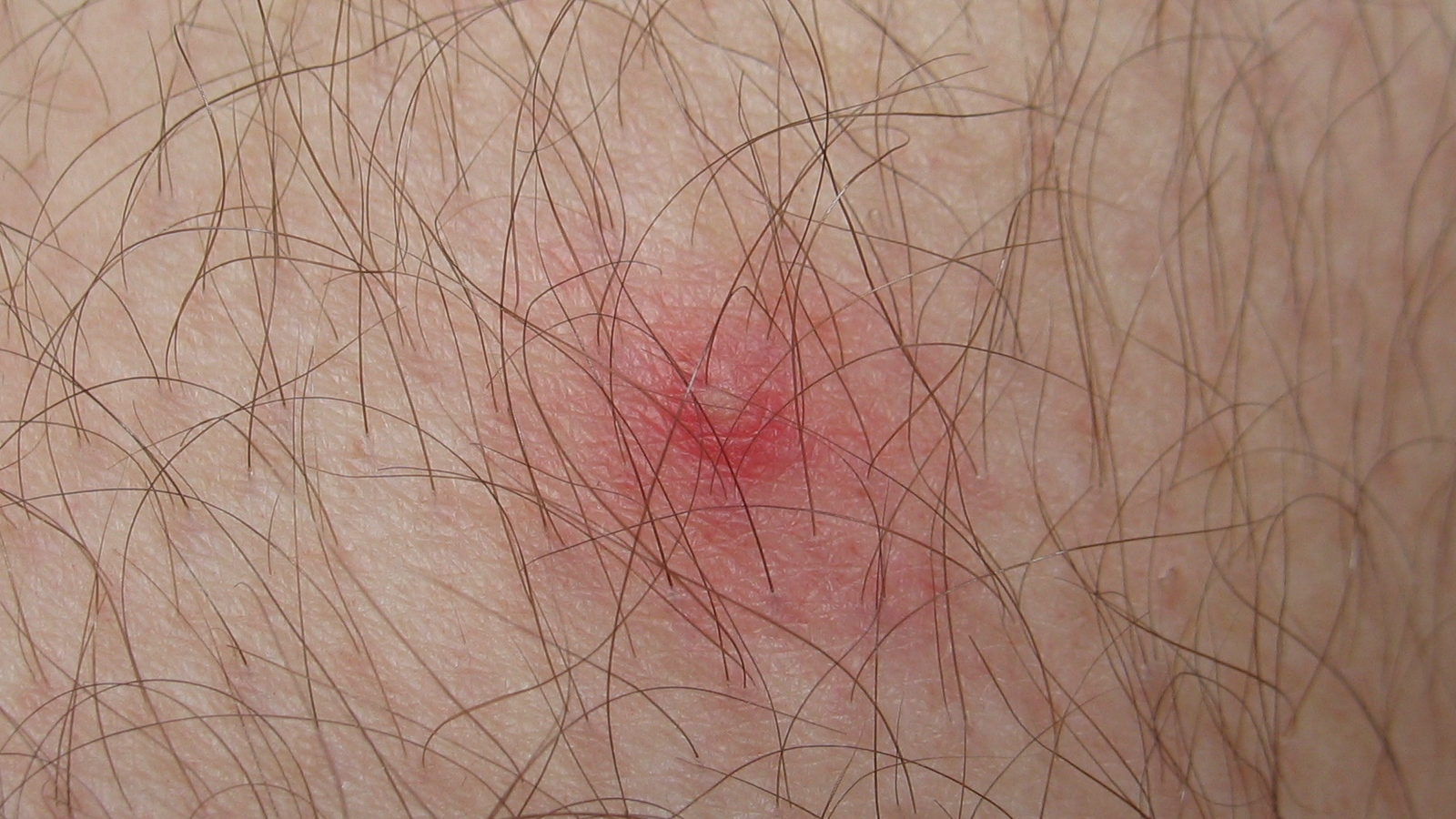 Site of tick bite immediately after removal. Some local immune activity can be seen. See here for image prior to extraction. Also: an image of the tick after removal.